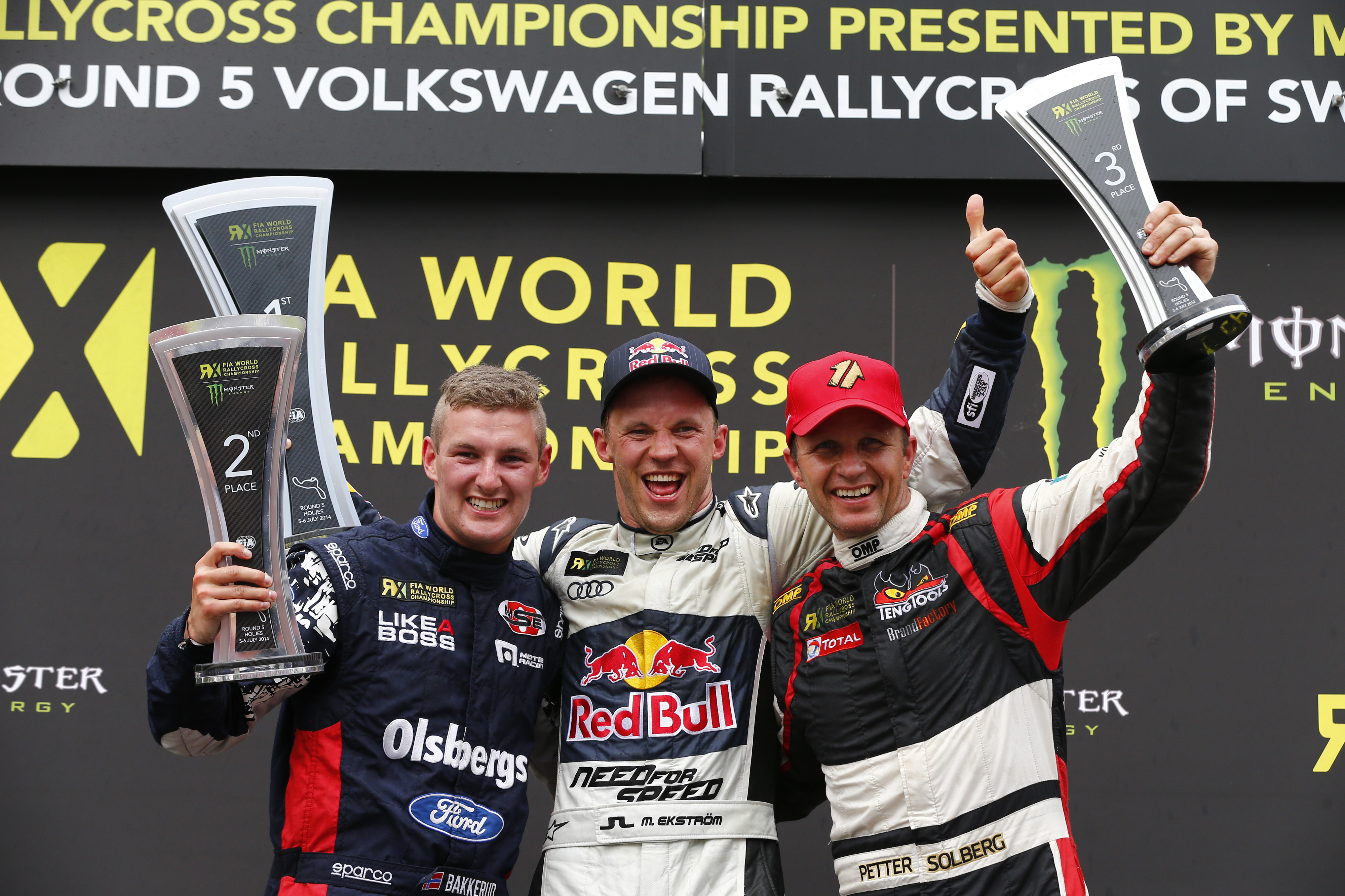 2014 FIA World Rallycross Championship Round 05 Höljes, Sweden 5th & 6th July 2014 Worldwide Copyright: EKS/McKlein